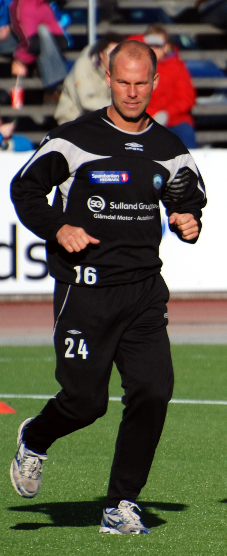 Kai Risholt, Kongsvinger - HamKam, Gjemselund in Kongsvinger, Hedmark, Norway.